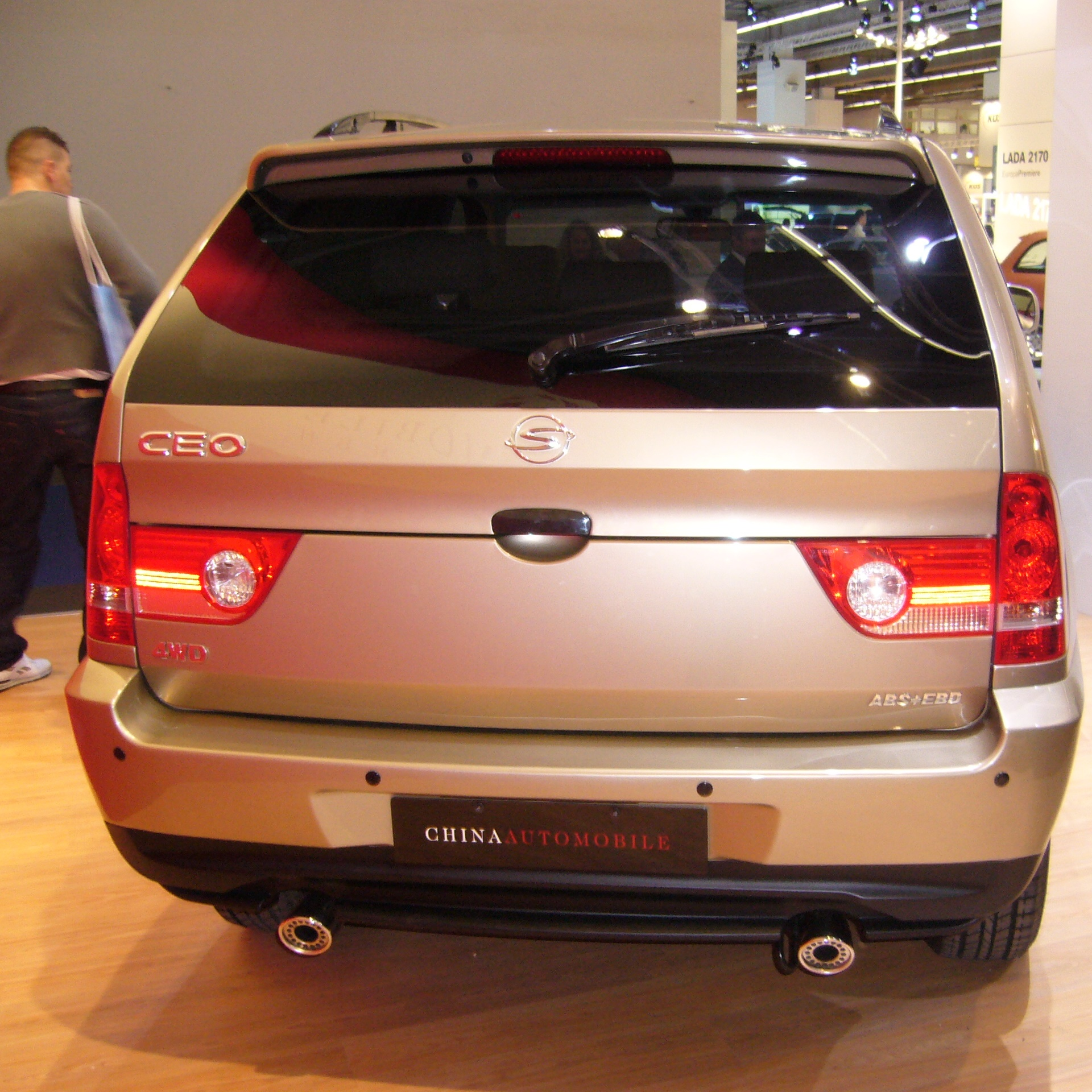 Martin Motors CEO